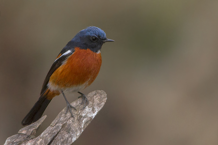 The species White-throated Redstart had been photographed during the birding tour of GoingWild at Khangchendzonga Biosphere Reserve in West Sikkim, Sikkim in India on 16.02.2016.